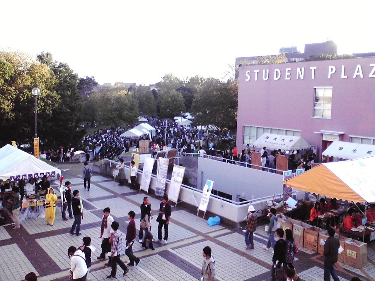 This is one scene of University of Tsukuba festival"Sohosai".